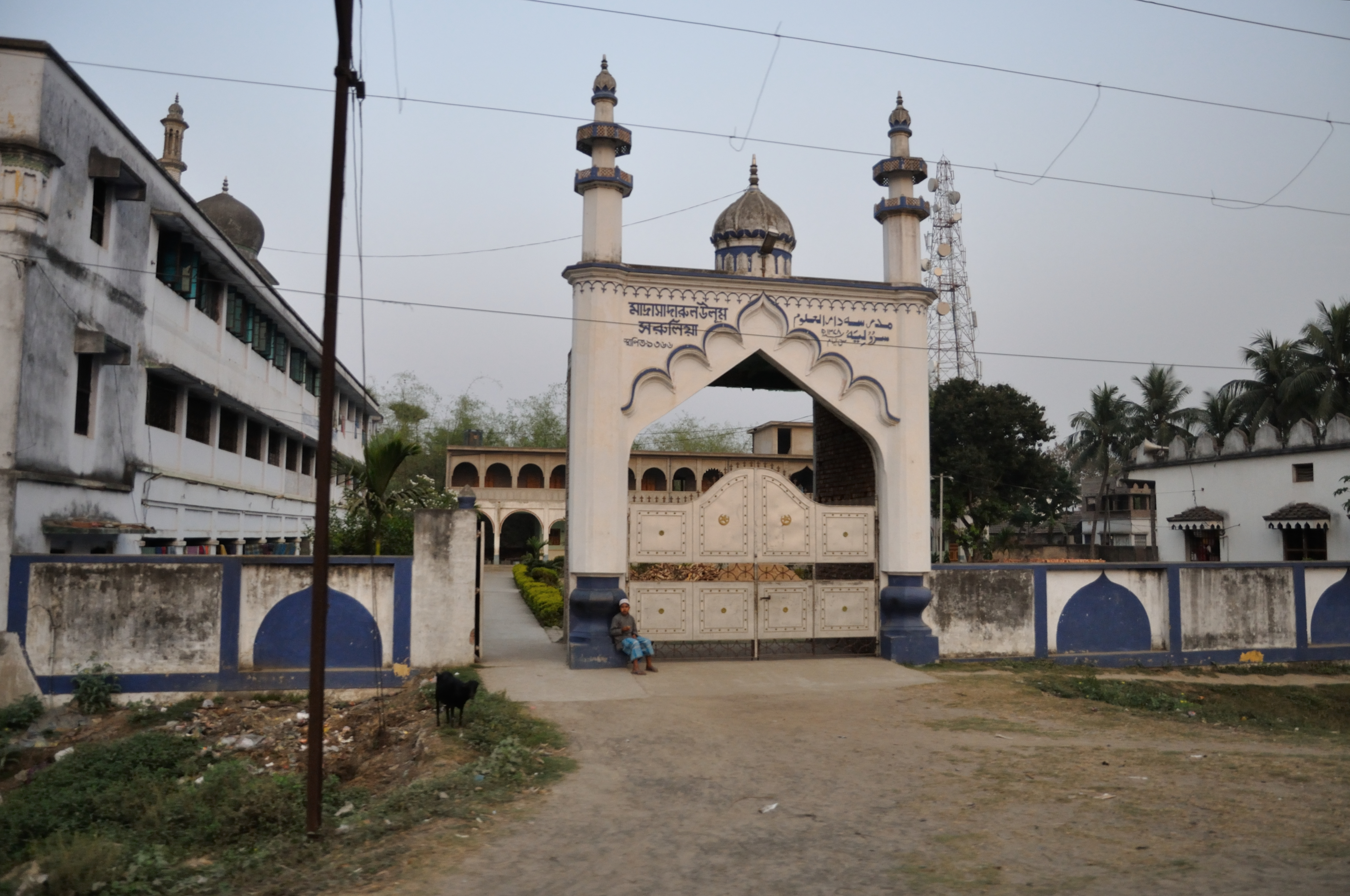 Photographed in West Bengal.